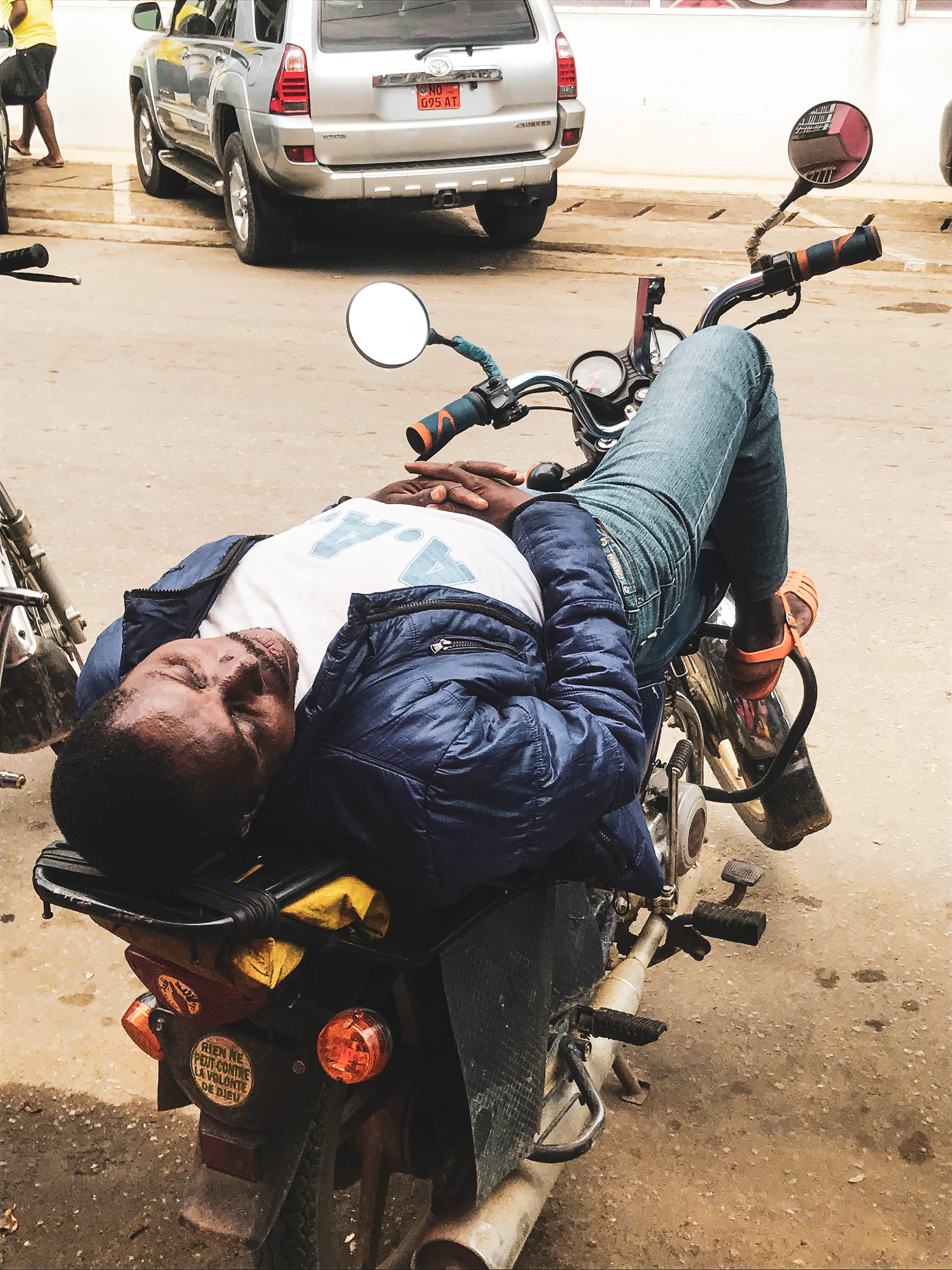 This represents a bike-man who is left with no choice but to catch some rest in this discomfort zone This is an image with the theme "Africa on the Move or Transport" from: Cameroon